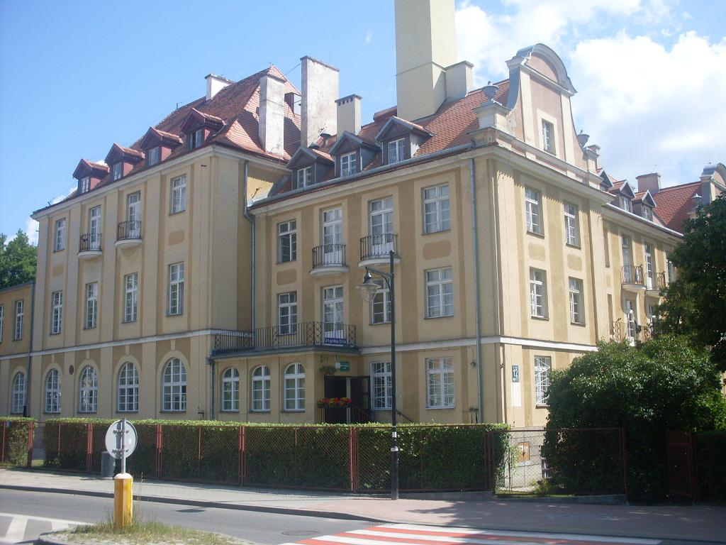 Hostel of Gdańsk University. Number 8 localisation at 1 Maja Street in Sopot.